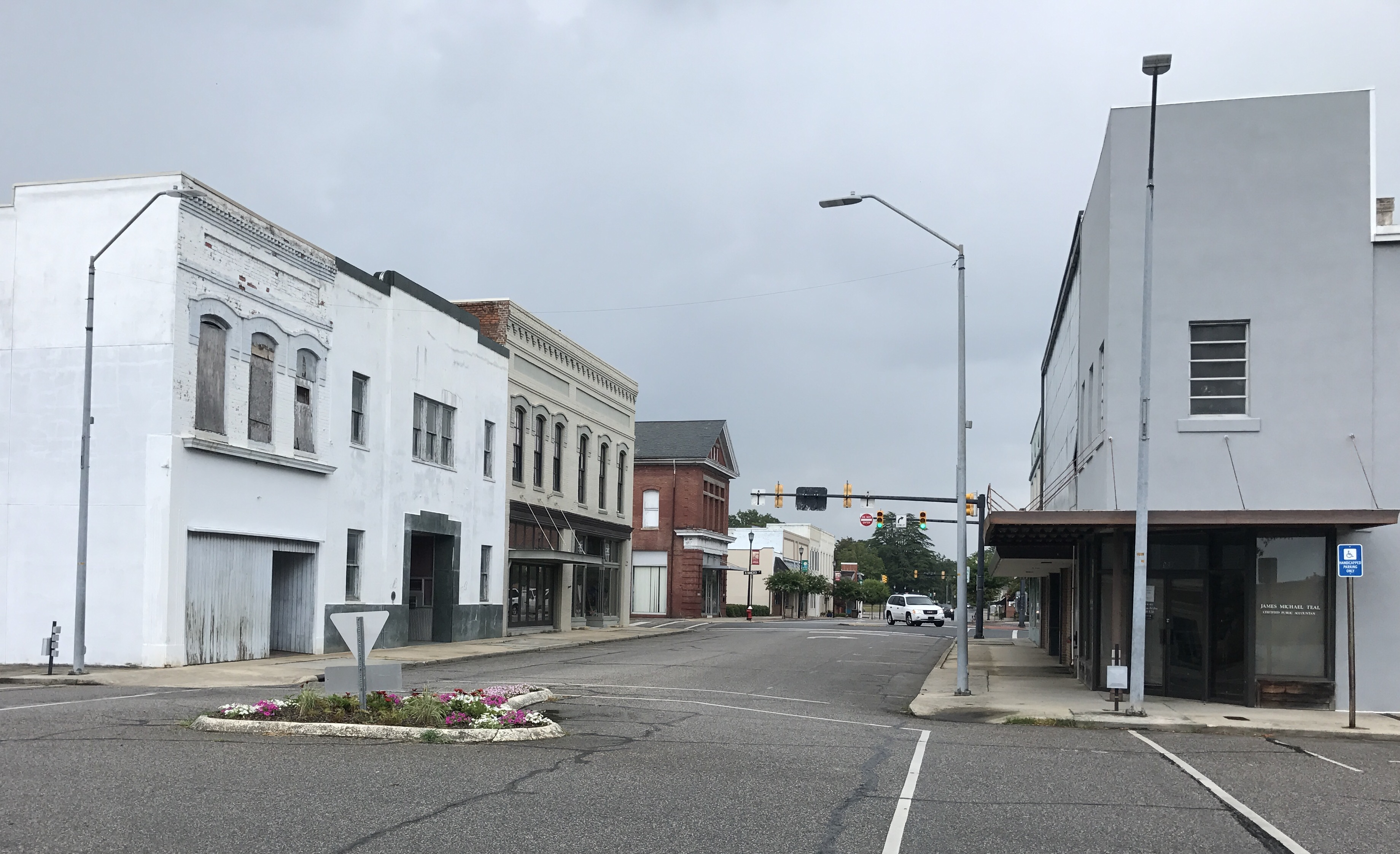 Buildings in downtown Rockingham